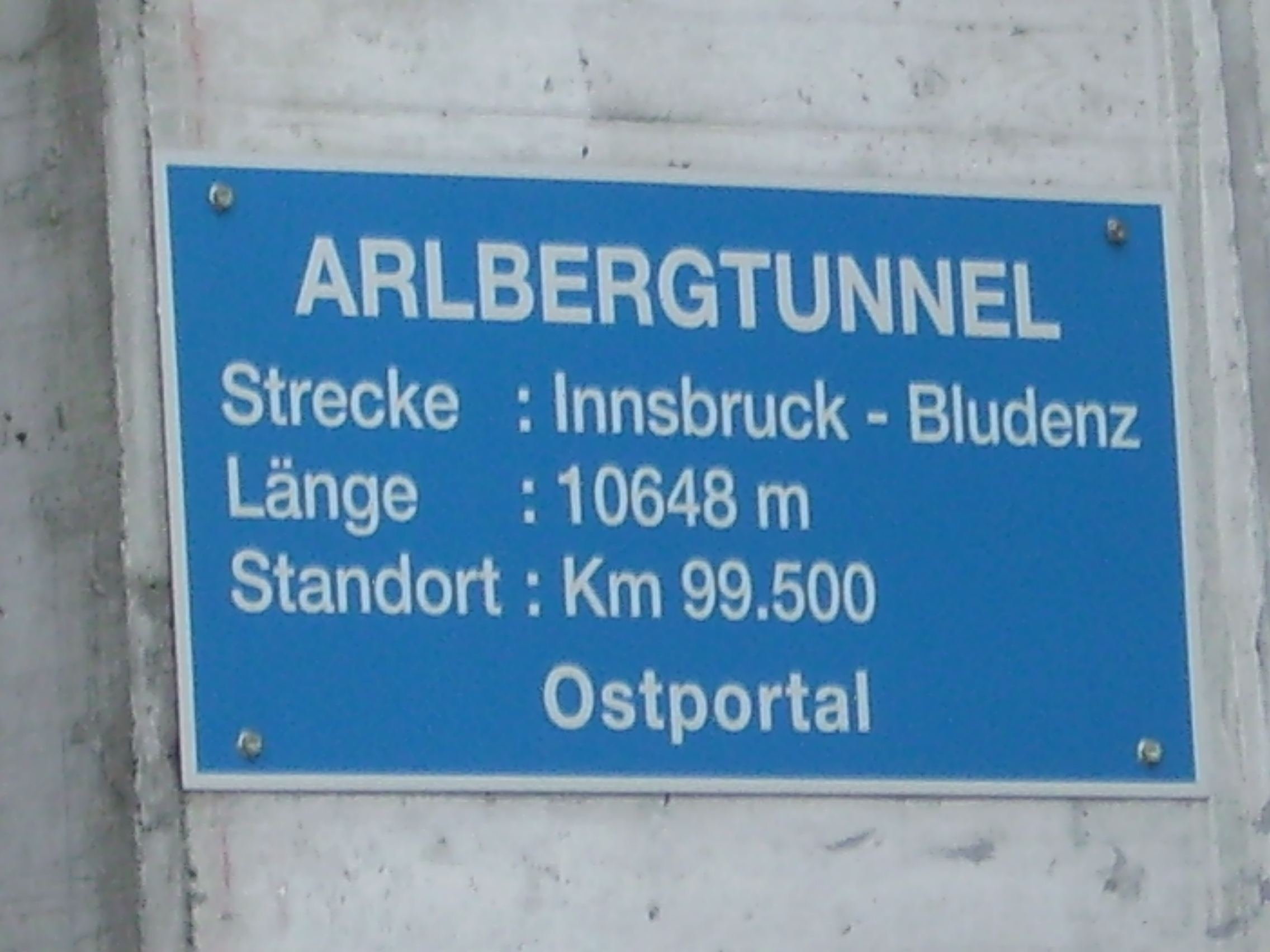 Plate at the Eastern portal of the Arlbergtunnel in the station of St. Anton, Austria